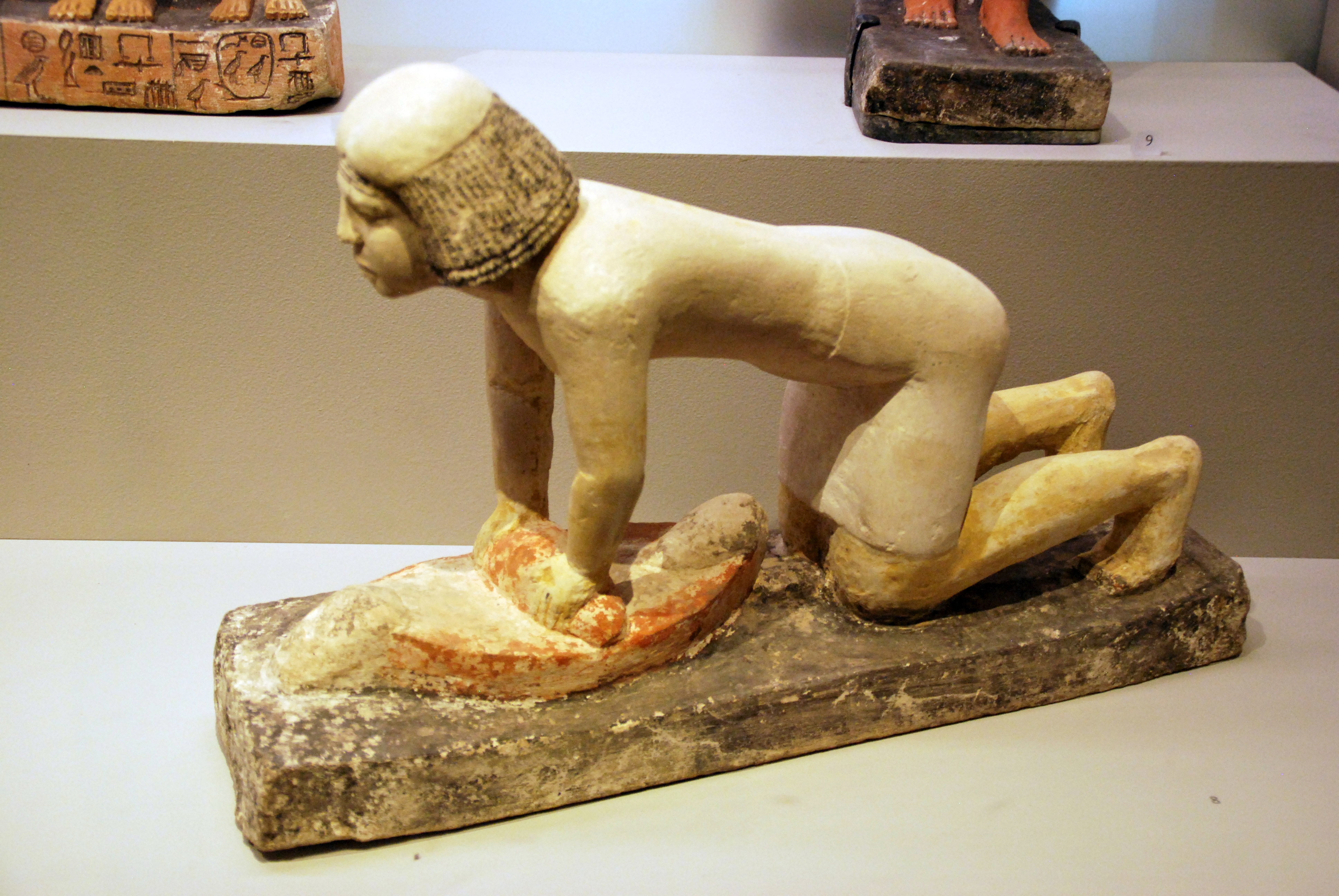 Statuette of a woman grinding grain; Limestone; from Giza, Egypt (G 2415), found in 1921; mid- to late Dynasty 5 (reigns of Niussera to Unis, 2420-2323 B.C.); acc. 21.2601.